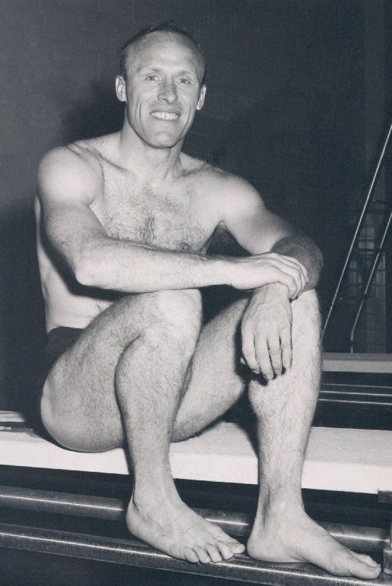 1963 American Diving Champion Hobie Billingsley in Aqua Follies Press Photo